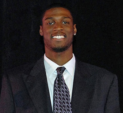 "Jamar Samuels, Kansas State University Men's Basketball Team forward...receives the "Never Broken" award for being the player who most embodies the 1st Bn., 7th FA Regt., 2nd HBCT's motto, "Never Broken By Hardship Or Battle" at the 2011 Kansas State University Men's Basketball Awards Banquet April 27 at Bramlage Coliseum, Manhattan. "